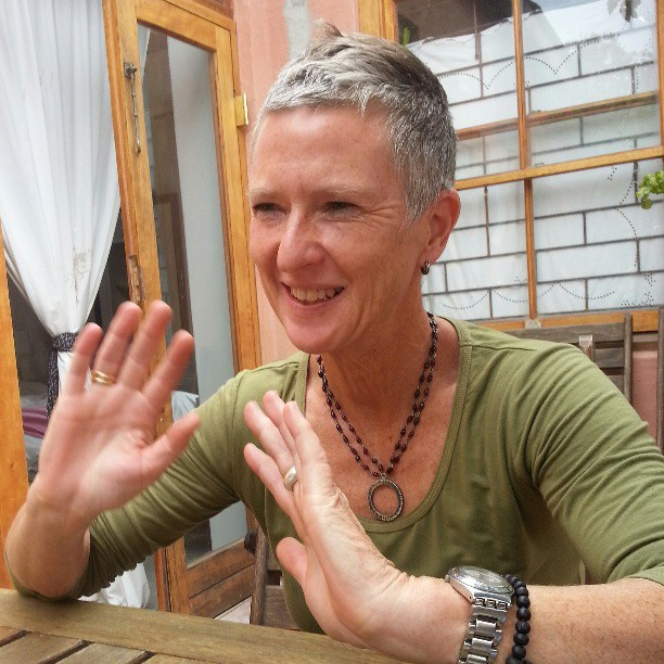 Jennifer Radloff during a meeting of the Association for Progressive Communications. South Africa, 2015